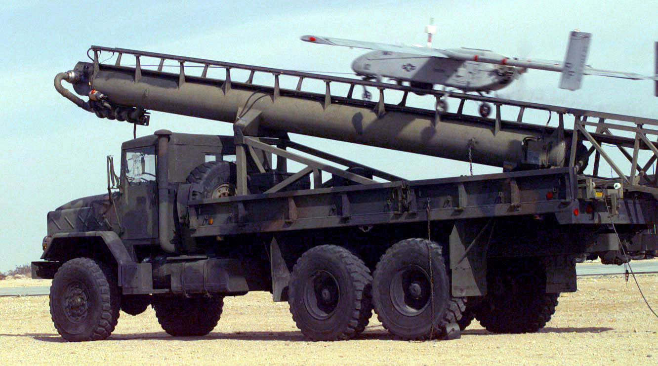 US Marine Corps Air Ground Combat Center (MCAGCC). A "Night Owl", or RQ-2A Pioneer, surveillance Unmanned Aerial Vehicle (UAV) is launched from its twin rail catapult mounted on a 5-ton truck. This launch is conducted by the Cherry Point Marine Base, Squadron-2, part of Combined Arms Exercise (CAX) 5-97 at Airfield Seagle. Location: MCAGCC, TWENTYNINE PALMS, CALIFORNIA (CA) USA-UNITED STATES OF AMERICA